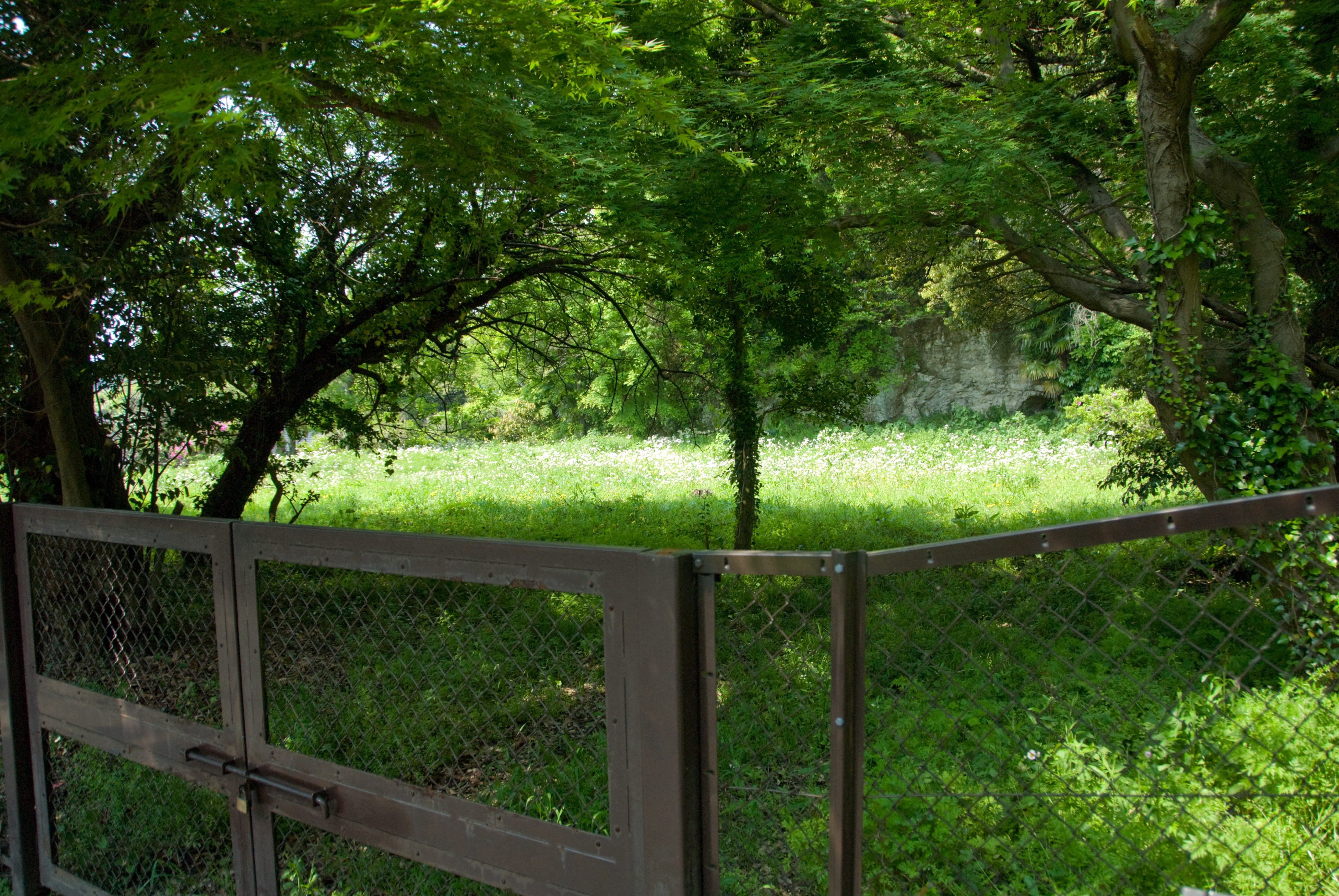 Site where the Hojo clan barricaded in their family temple, killed themselves and burned the place to the ground after their defeat in 1333.